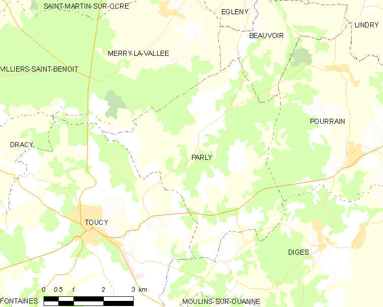 Map of French municipality Parly